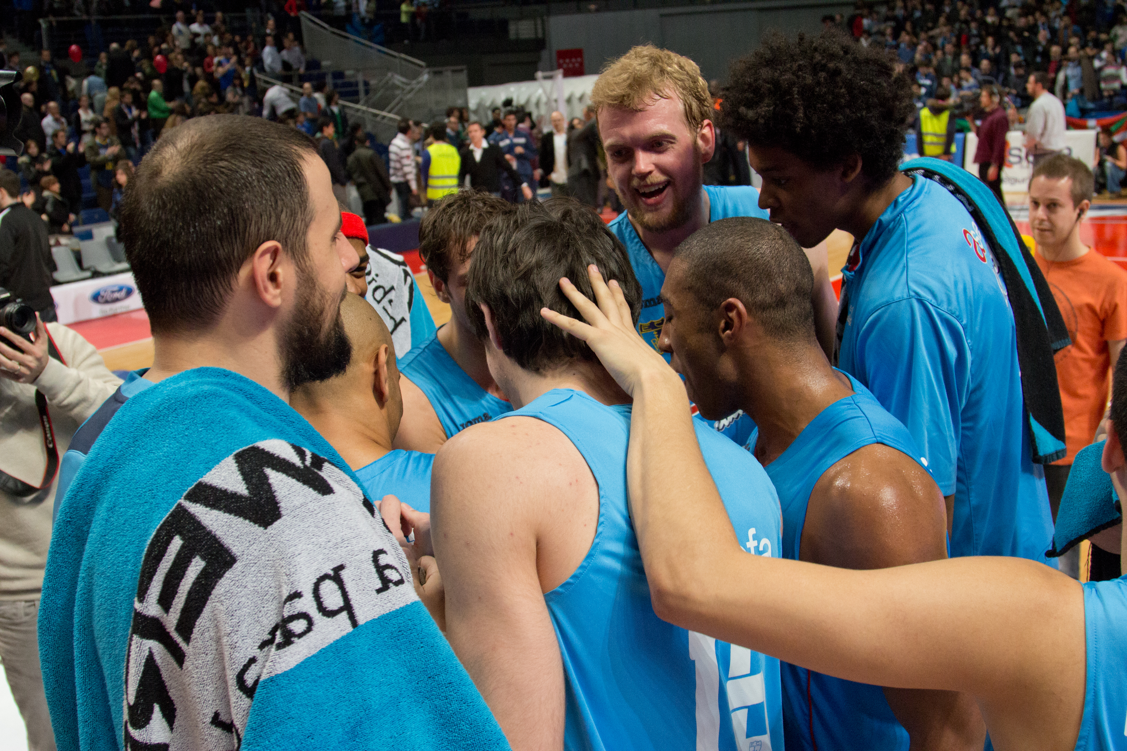 The players of Estudiantes celebrate after winning the game Estudiantes vs Unicaja Málaga.